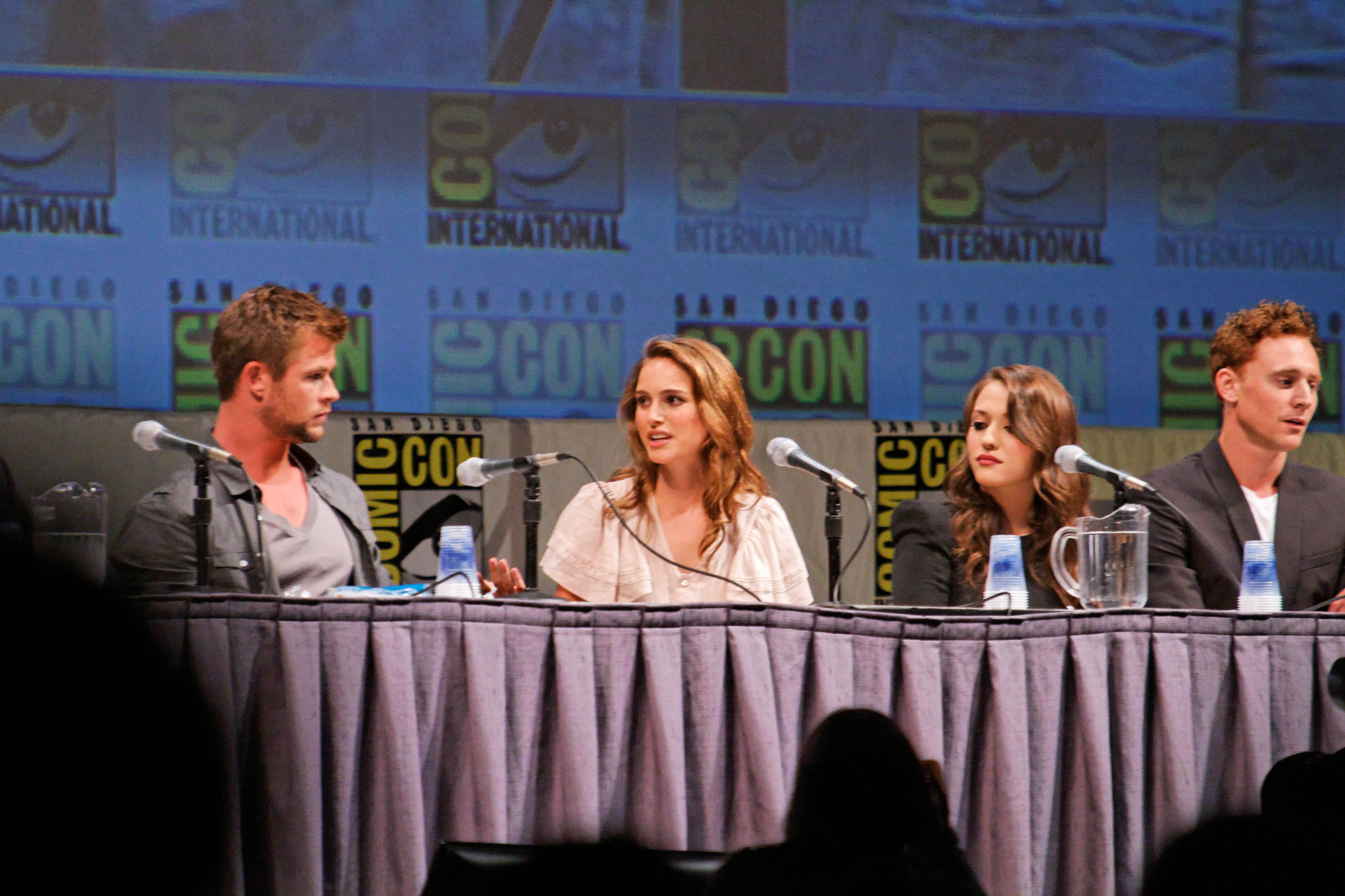 Thor panel from the 2010 San Deigo Comic-Con International with Chris Hemsworth, Natalie Portman, Kat Dennings and Tom Hiddleston.